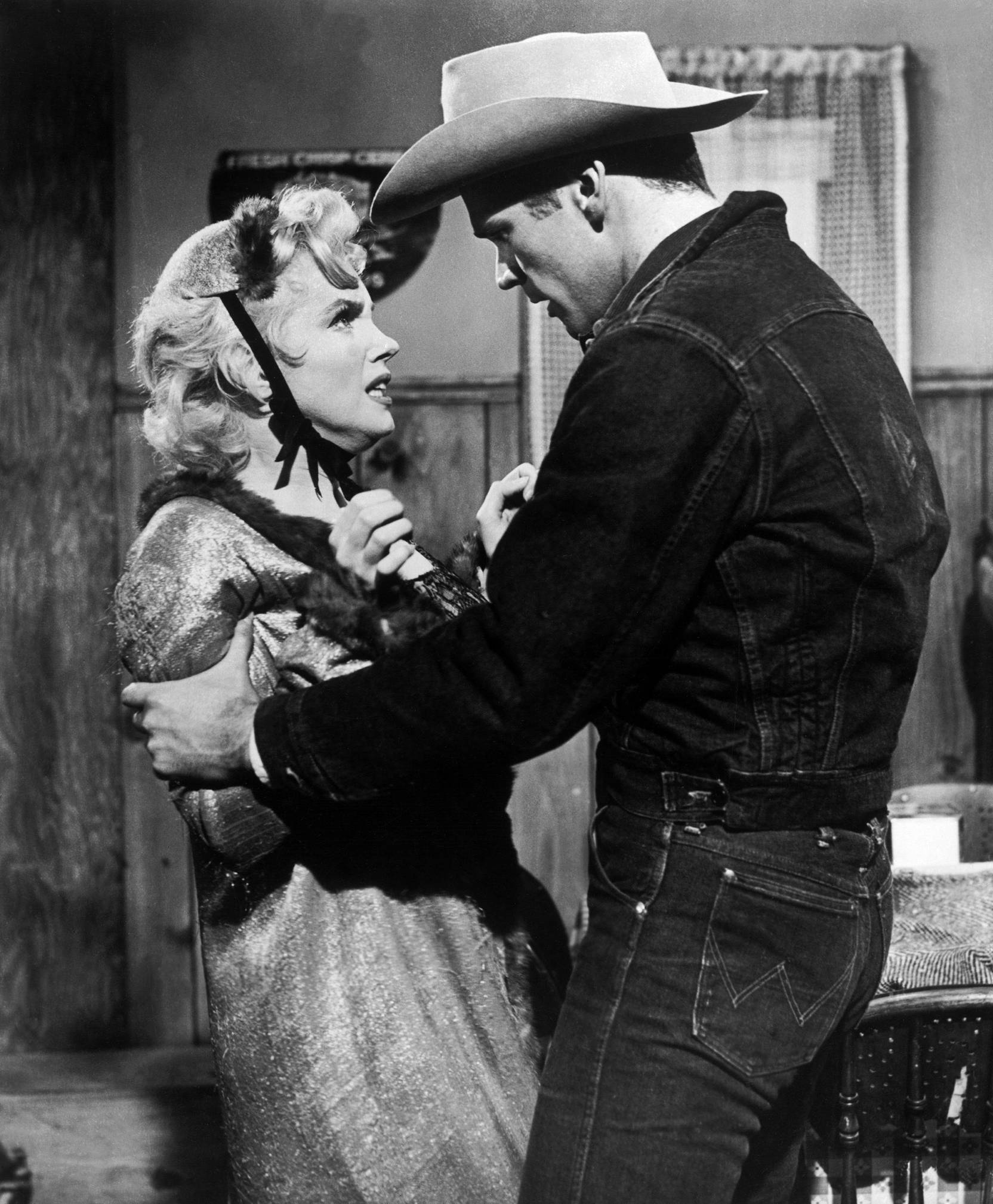 Photo of Marilyn Monroe and Don Murray in Bus Stop from September 3, 1956 issue of Film Bulletin Note this is a larger, better quality uncropped copy of the photo seen on Film Bulletin page 23. A renewal search was done at using the title Film Bulletin. There's no evidence of renewal for this magazine.